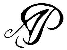 Abel Pinto's logo